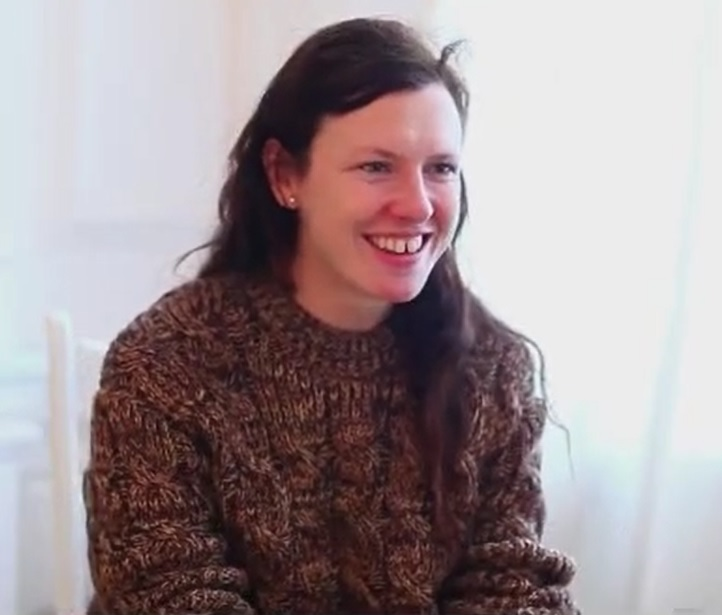 British fashion journalist Katie Grand discusses style while in Russia.